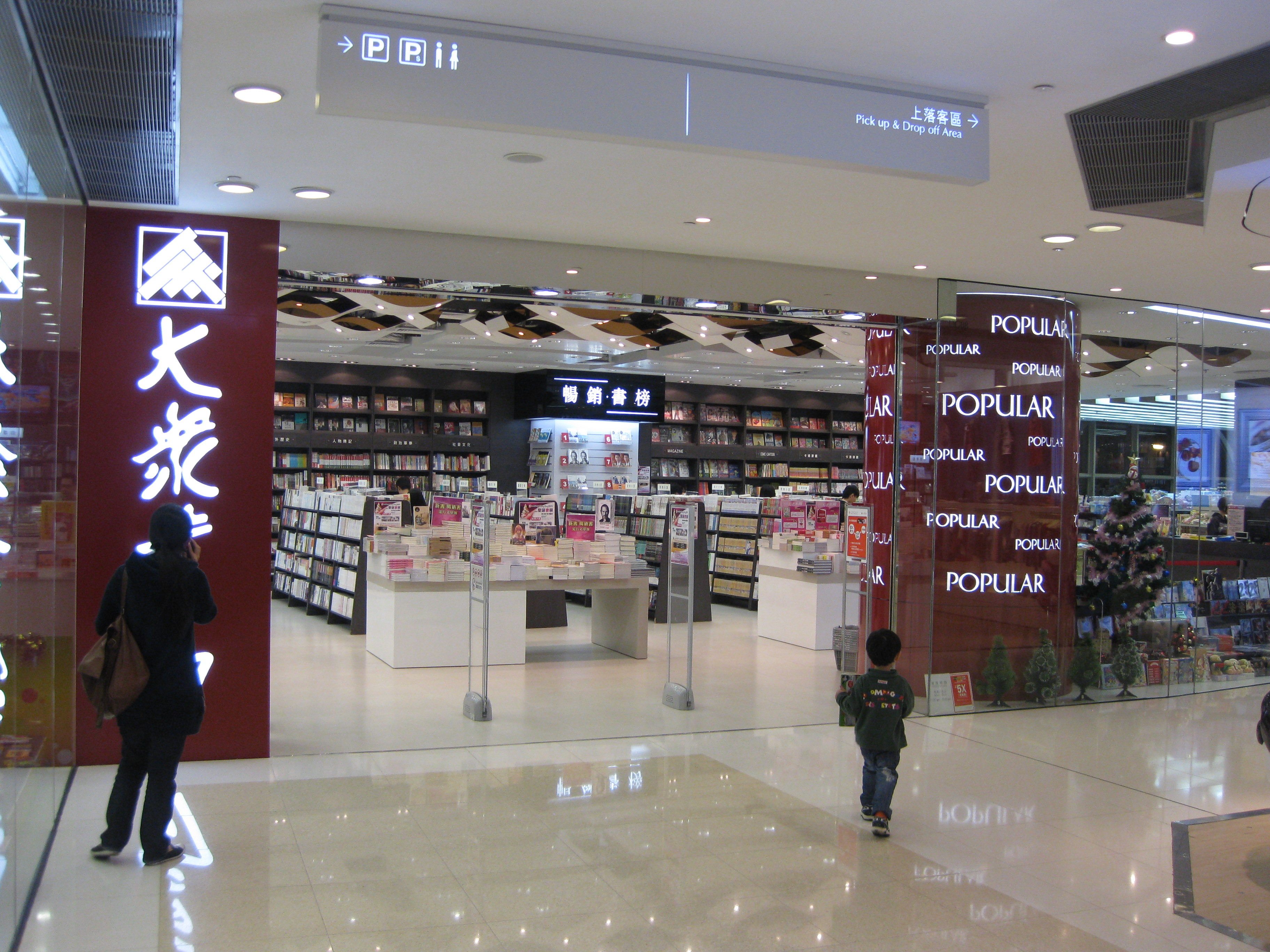 Popular Holdings HK Olympian City branch